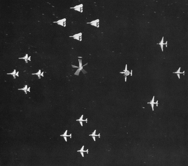 U.S. Navy aircraft of Carrier Air Wing 1 in flight following the 1991 Gulf War. CVW-1 was assigned to the aircraft carrier USS America (CV-66) for a deployment to the Persian Gulf from 28 December 1990 to 18 April 1991. The following aircraft and squadrons were assigned to CVW-1: Grumman F-14A Tomcat: Fighter Squadron 33 (VF-33) "Starfighters" and VF-102 "Diamondbacks"; McDonnell Douglas F/A-18C Hornet: Strike Fighter Squadron 82 (VFA-81) "Marauders" and VFA-86 "Sidewinders"; Grumman A-6E Intruder: Attack Squadron 85 (VA-85) "Falcons"; Grumman E-2C Hawkeye: Airborne Early Warning Squadron 123 (VAW-123) "Screwtops"; Grumman EA-6B Prowler: Tactical Electronic Warfare Squadron 137 (VAQ-137) "Rooks"; Lockheed S-3B Viking: Anti-Submarine Squadron 32 (VS-32) "Maulers"; and Sikorsky SH-3H Sea King: Helicopter Anti-Submarine Squadron 11 (HS-32) "Dragon Slayers".